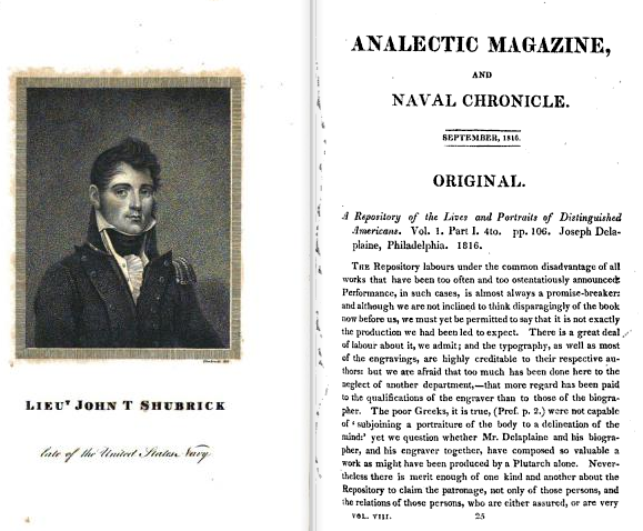 From: Analectic Magazine, Sept. 1816 (Philadelphia)